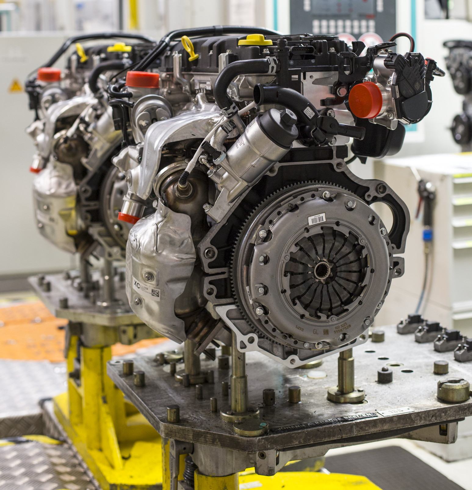 Turbo engine from Opel Vienna in production.